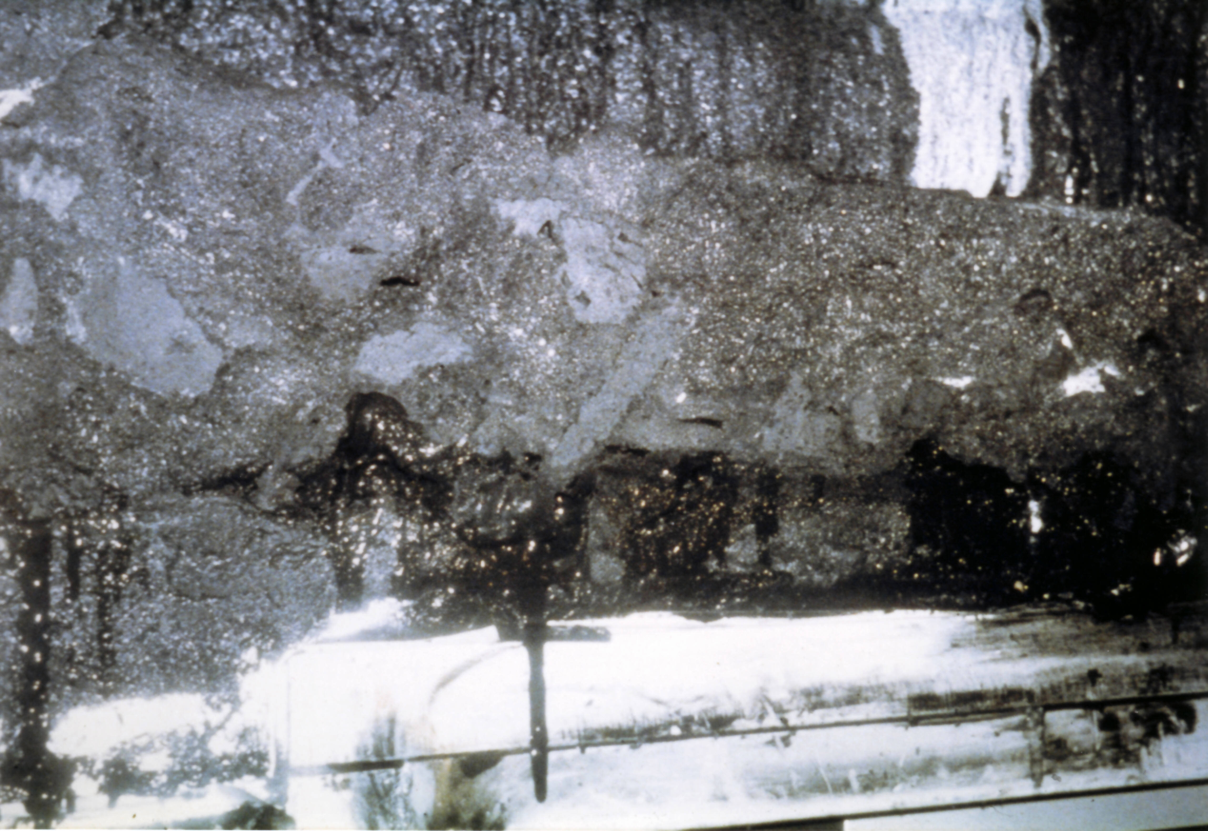 Faulty Sakno silicone foam firestop installation in a Calgary wastewater treatment plant in the 1980's. This is a hole in a fire-resistance rated concrete wall, above a fire door frame. The outside temperature was ca. -40°C (-40 F). The inside was heated. A steady temperature is needed for the foam to "snap", solidify and expand properly, as it evolves hydrogen gas. Every now and then someone opened the outside door, the temperature would plummet and the foam's consistency was affected, as can be seen by the tears and uneven bubble distribution and incomplete phase change. To achieve its rating, as per its certification listing, the foam also requires ceramic fibre boards (furnace insulation) to permanently cover both sides of the foam, a common deficiency, exposed by whistleblower Gerald W. Brown. This is image 1 of 2. The other one is right here: .